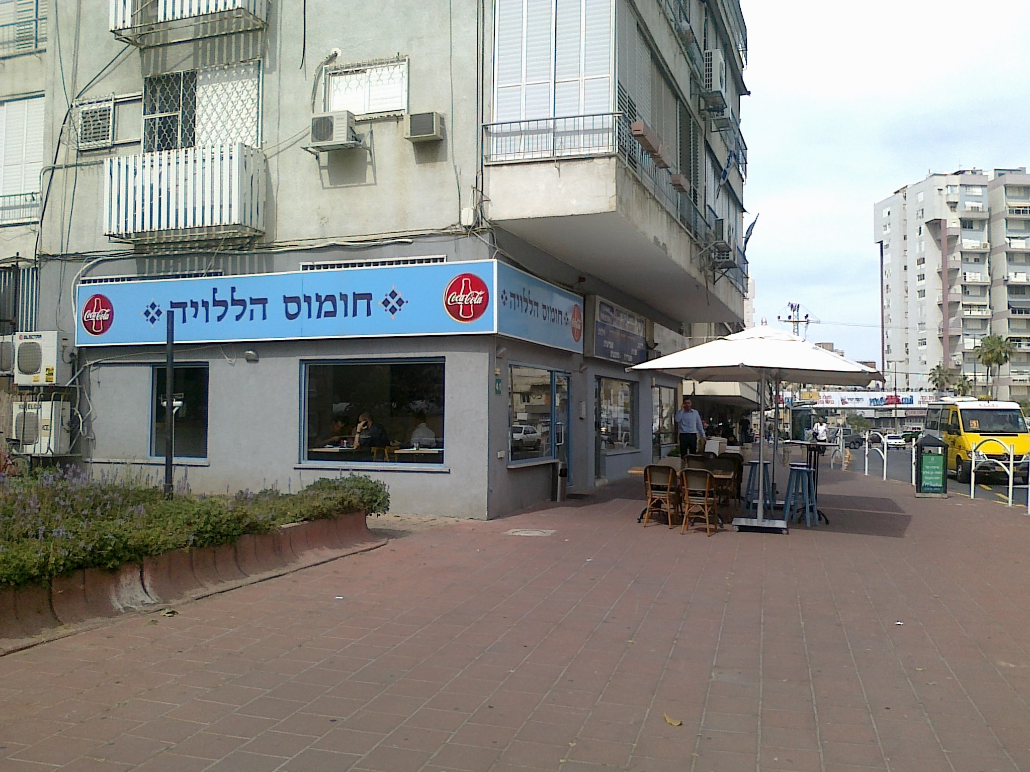 Hummus Hallelujah (Hummus Halleluya) on Jabotinsky Road, Ramat Gan, Israel.